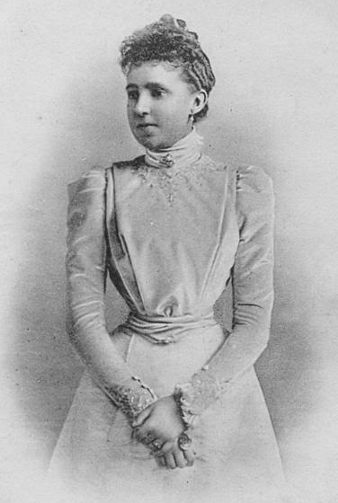 Mercedes of Spain, princess of Asturias, eldest daughter of King Alphonso XII.